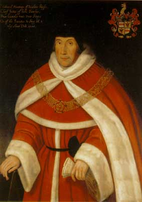 Portrait of Sir Edward Montagu (circa 1485 date QS:P,+1485-00-00T00:00:00Z/9,P1480,Q5727902-1556/57)